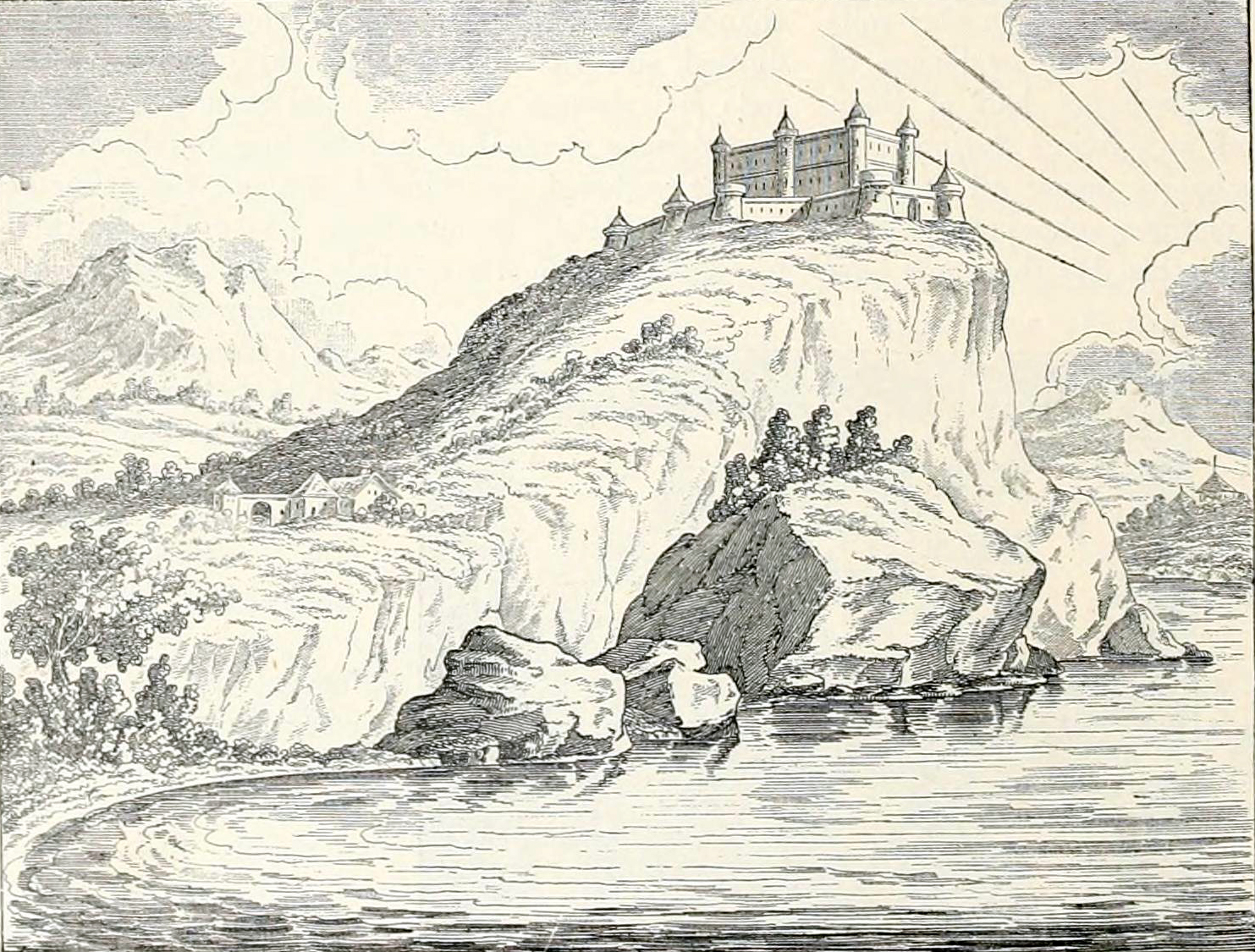 Skelt illustration from A penny plain and twopence coloured by R.L. Stevenson